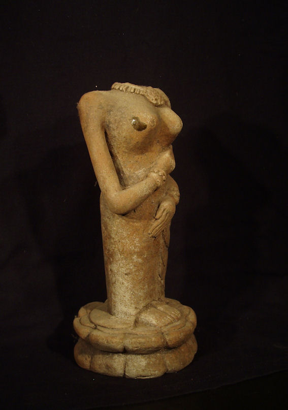 Majapahit terracotta Figurine from th collection of Balique Arts of Indonesia. This headless figure has been high fires as evidenced by the drip of glaze on the right breast suggesting temperatures must have reached 1100 degrees during firing.